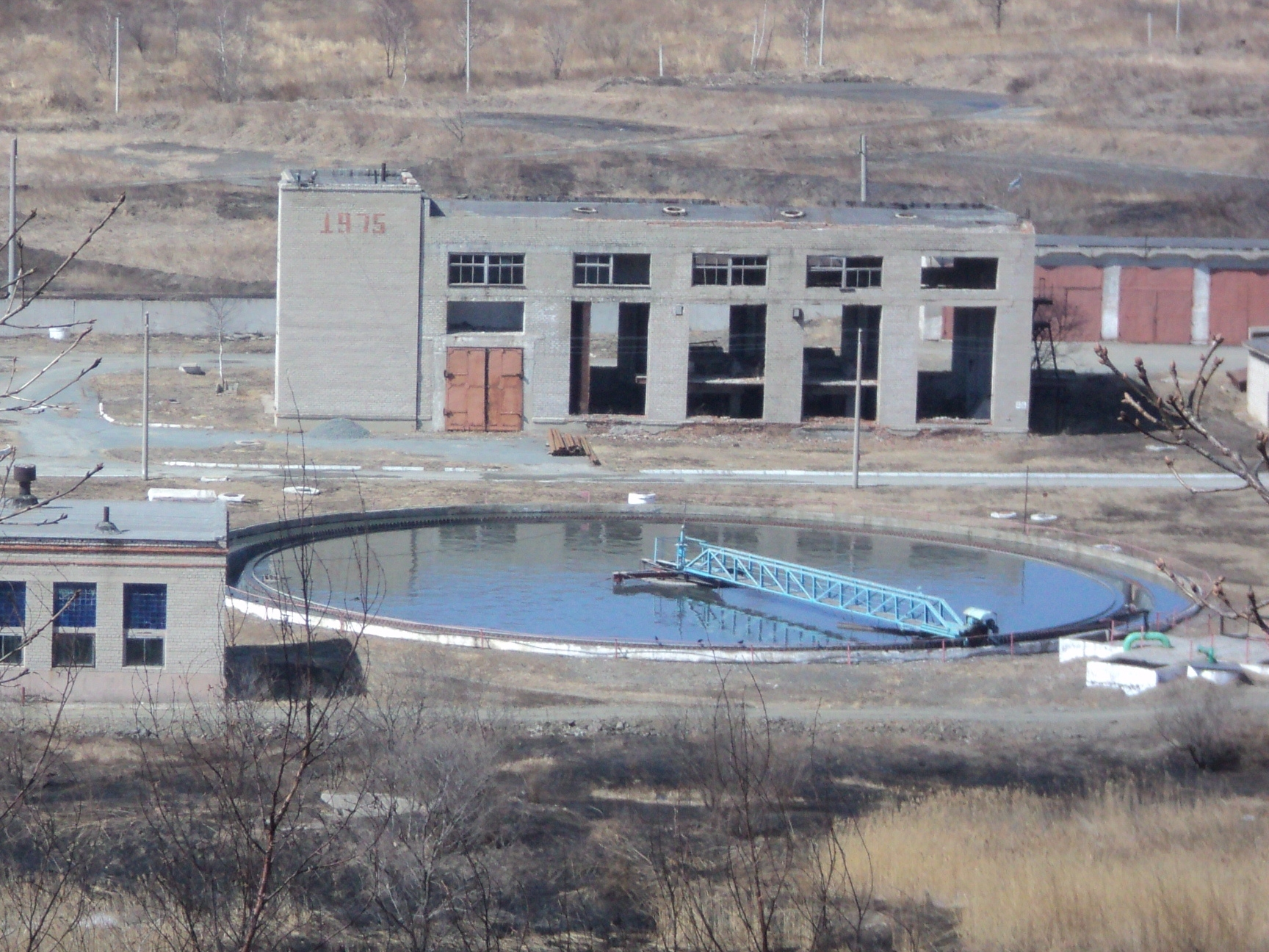 Aerotank of the Wastewater Treatment Plant in Nakhodka, Russia